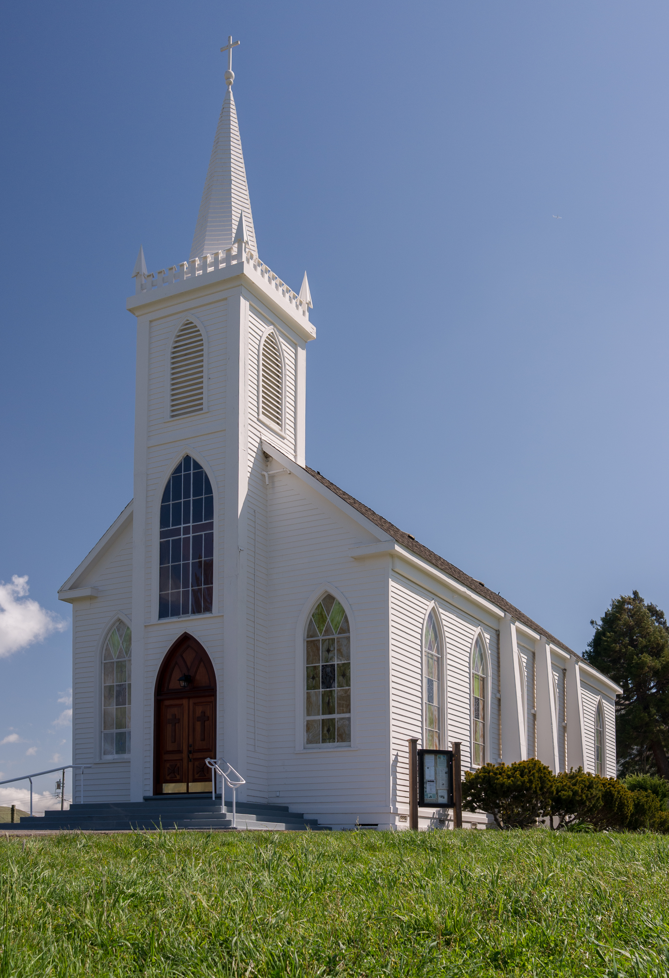 Saint Teresa of Avila Church, Bodega, California. Oldest church in continuous use in Sonoma County.